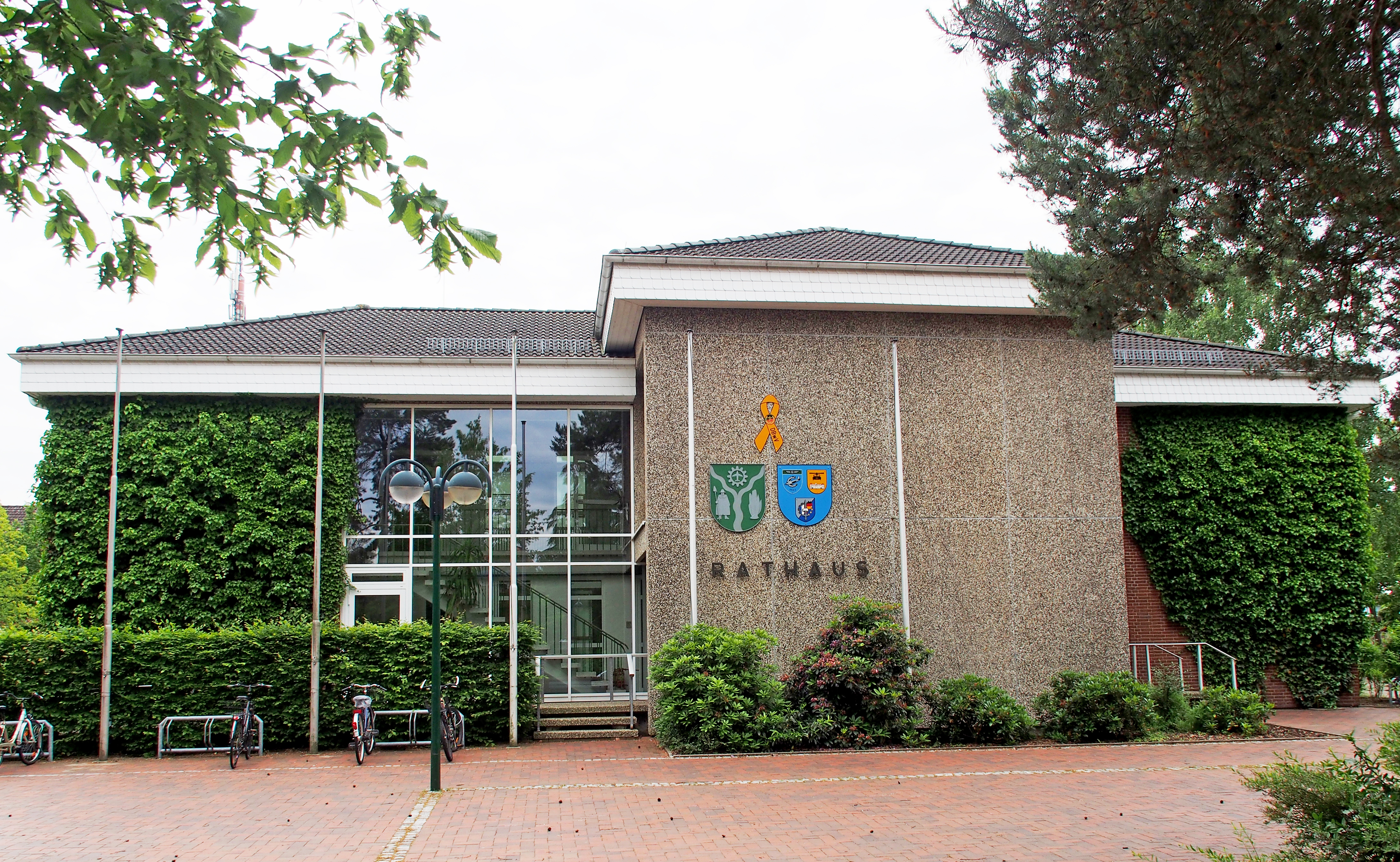 Fassberg town hall, Lower Saxony, Germany.